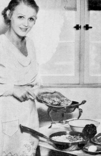 Gloria Stuart posed cooking in Photoplay, 1933